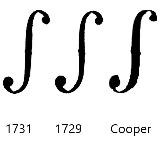 In 1906, Vincent Cooper displayed a cello at the Cremona Society in London said to be the work of del Gesù (Giuseppe Guarneri). The soundholes on the two cellos which modern scholarship believes were finished by del Gesù in 1729 and 1731 (Cozio Archive No. 40383 and 43989 respectively) are shown alongside the Cooper cello. It can be seen that the wings of the Cooper cello (the tangs intruding into the end scrolls are far wider on the del Gesù cellos.